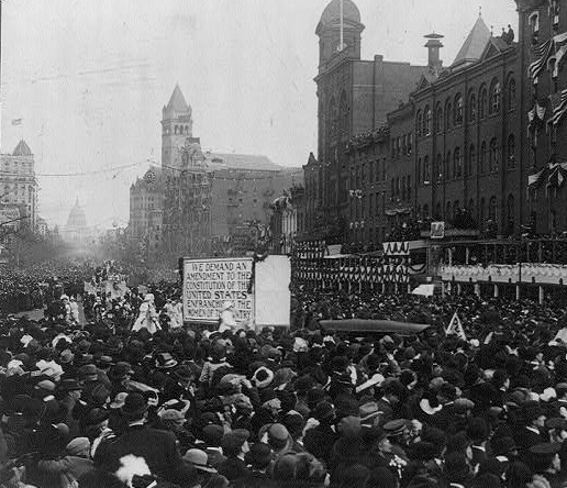 Suffragette parade. Grand Marshall, Mrs. Richard Burleson; Herald, Miss Inez Milholland; and other prominent workers on horseback - March 3, 1913, Washington, D.C.